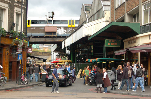 London: Looking north along Stoney Street to Borough market